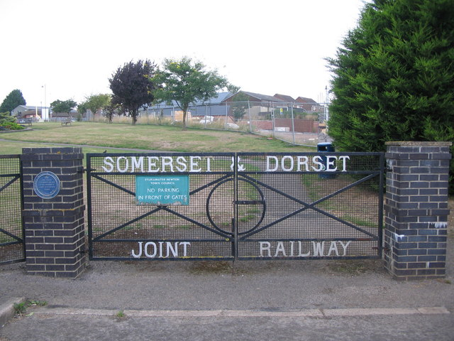 In-filled railway. Site of Sturminster Newton Station, Dorset